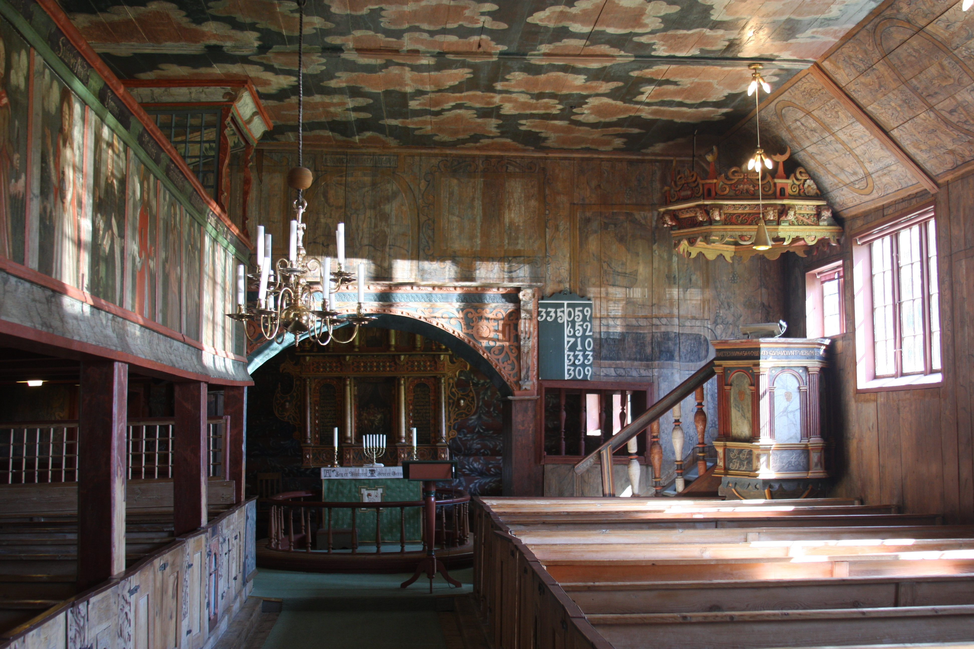 Sögne Old Church (Søgne gamle kirke) in Sögne municipality, 15 km west of Kristiansand, Norway. Medieval.